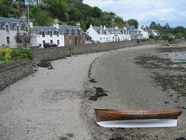 Harbour Street, Plockton Viewed from the beach with the tide out, it is springtime with a fine clematis montana in bloom on the first cottage